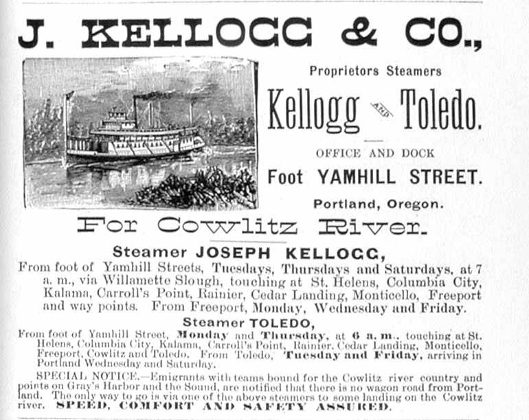 Advertisement for steamboat line run by Joseph Kellogg and company for steamers running from Portland Oregon to the Cowlitz river, then in the Washington Territory (now state).